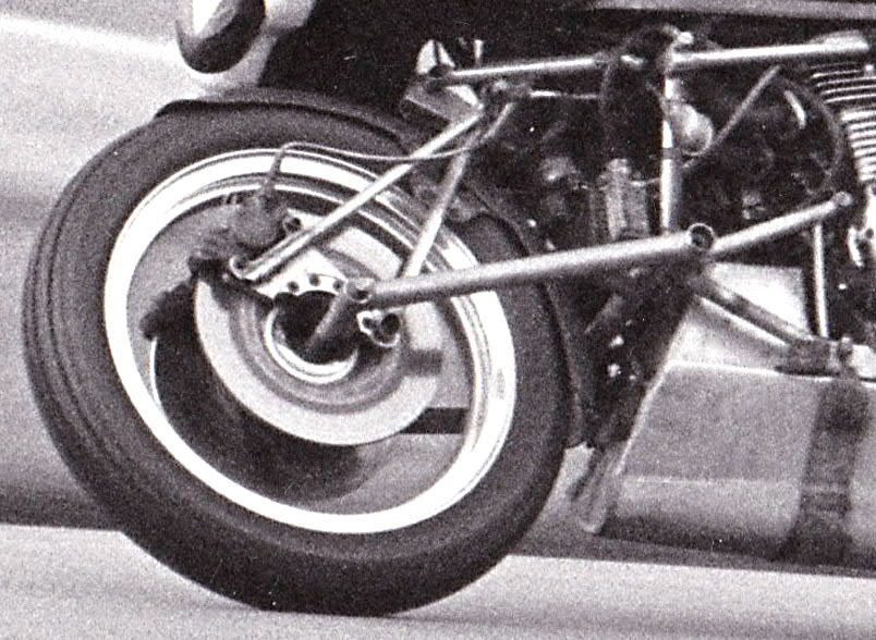 Hub-centre steering mechanism on a Mead & Tomkinson Kawasaki Z1000-engined motorcycle for endurance racing nicknamed 'Nessie' in the mid 1970s to early 1980s era